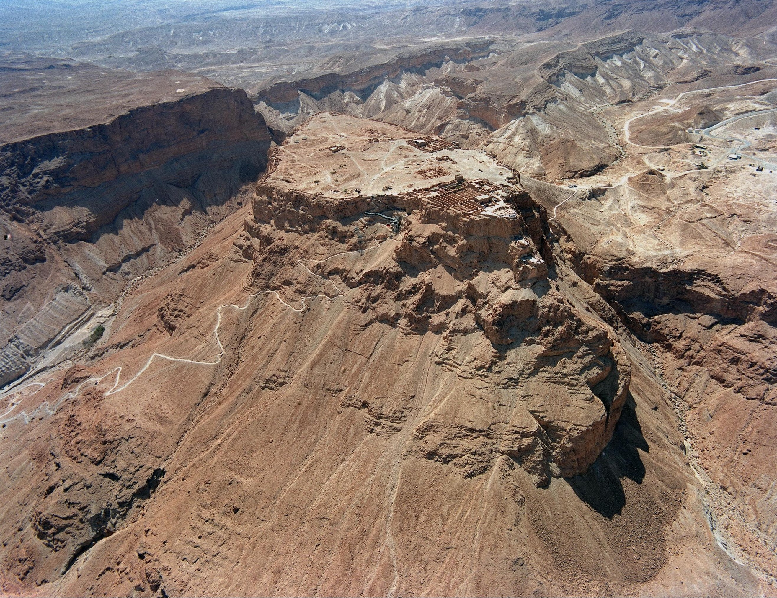 A aerial view of the Masada fortress above the Dead Sea. צילום אויר של מצדה, ליד ים המלח. Photo: Moshe Milner (1946–) Alternative names Miylner, Moše; Milner, Mosheh; Moshé Milner; Milner, M.; Mîlner, Moše; Miylner, MošehDescriptionIsraeli photographerצלם ישראליDate of birth 1946 Location of birth Germany Authority control : Q28750411 VIAF: 100999744 ISNI: 0000 0001 0804 0507 LCCN: n82072104 GND: 115699732 BNF: 15548788n WorldCat creator QS:P170,Q28750411 , 03/25/1993